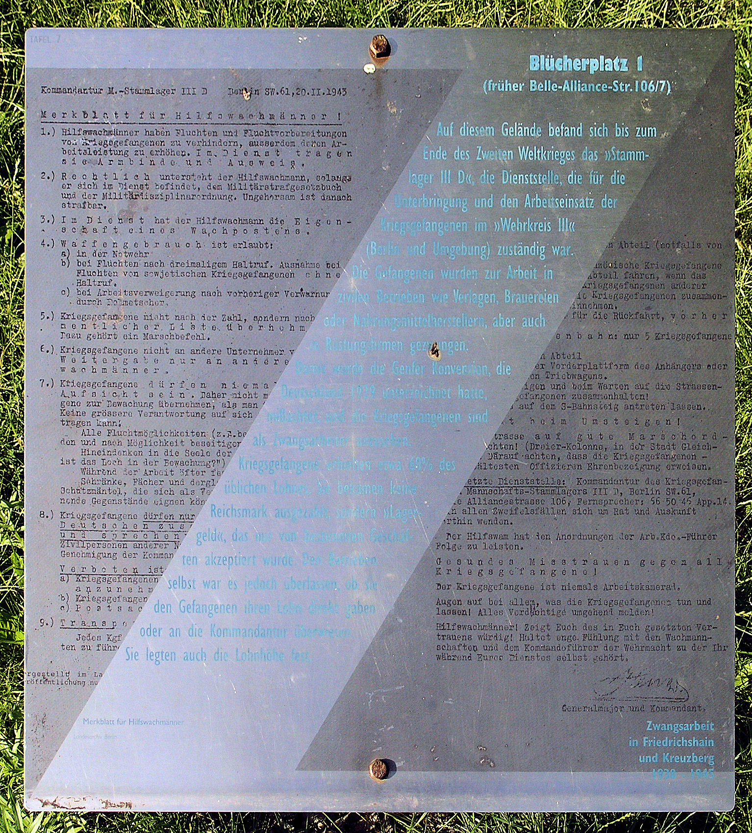 Memorial plaque, Amerika-Gedenkbibliothek, Blücherplatz 1, Berlin-Kreuzberg, Germany